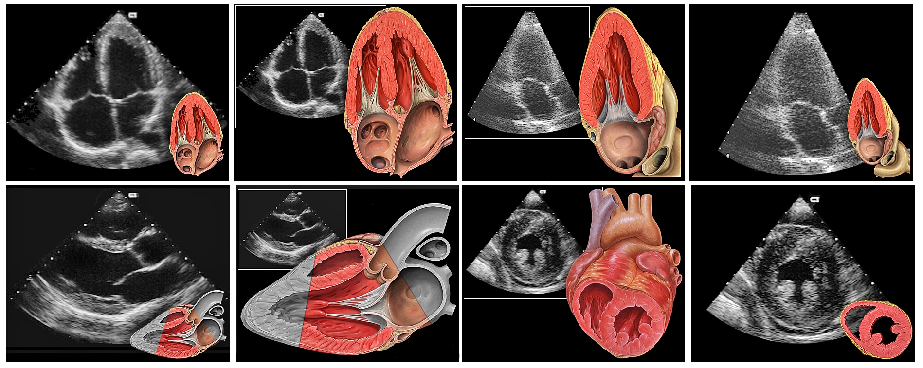 Heart normal transthoracic echocardiography views